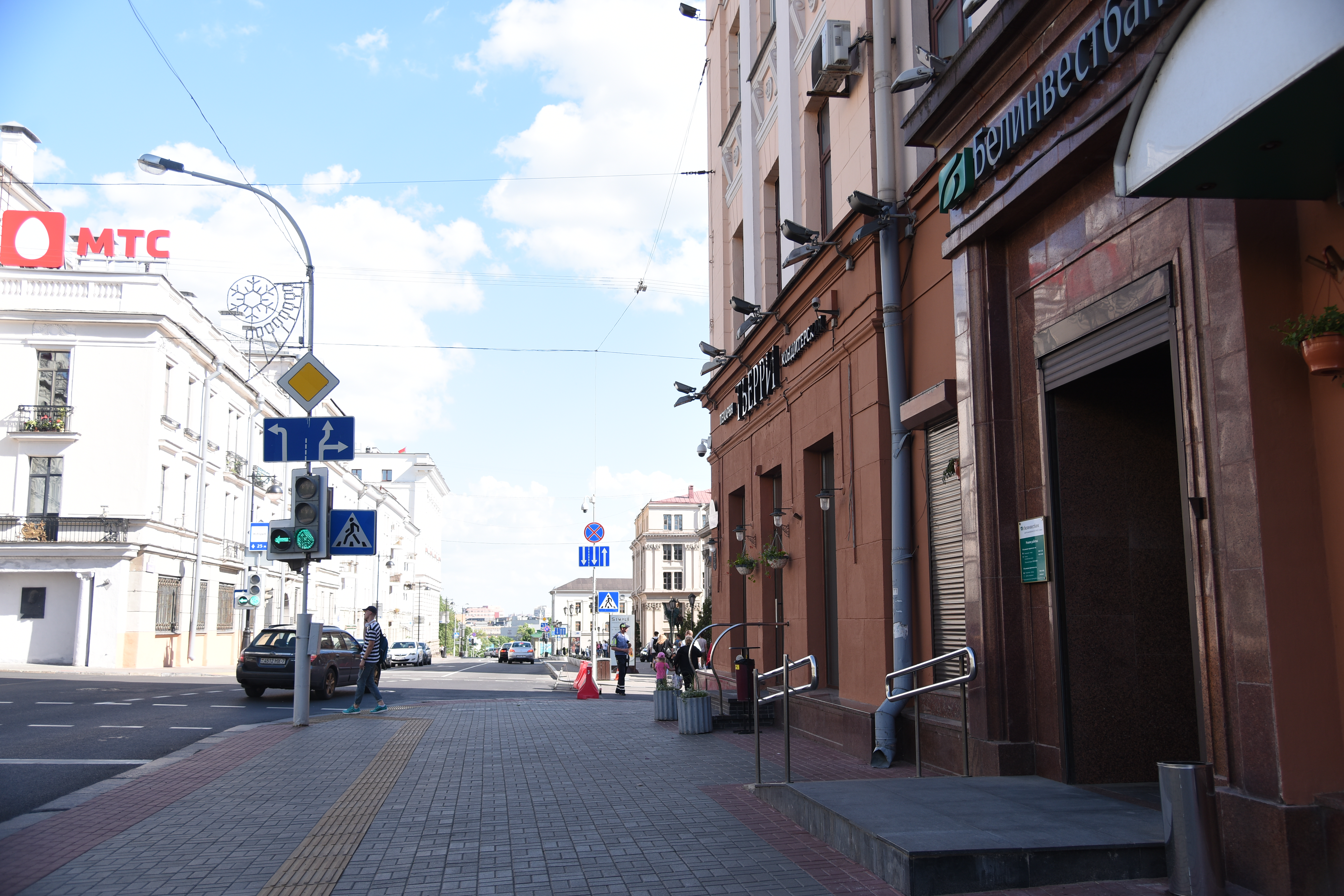 Belinvestbank